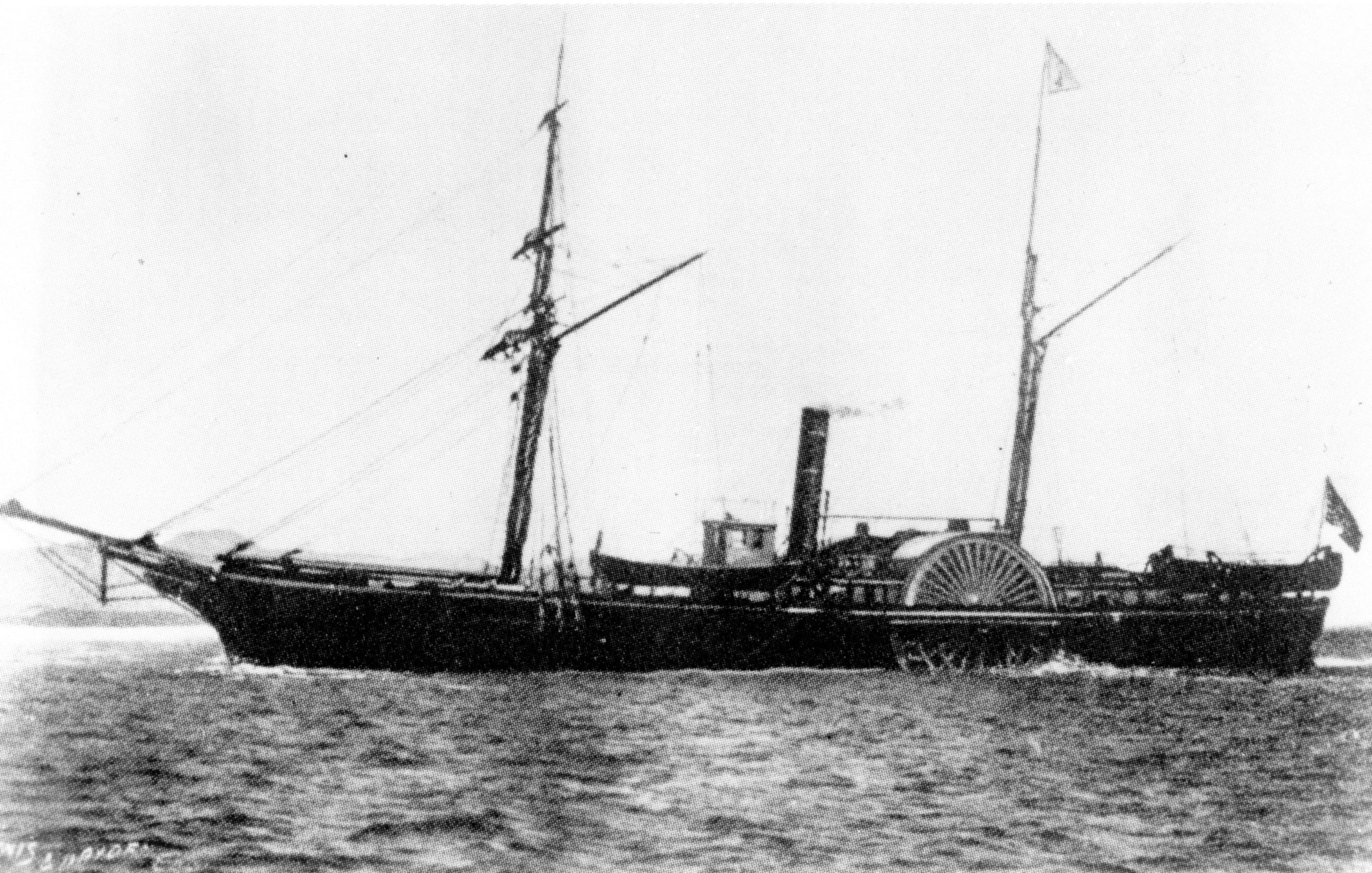 The first steam-powered Lighthouse Tender, the USS SHUBRICK.